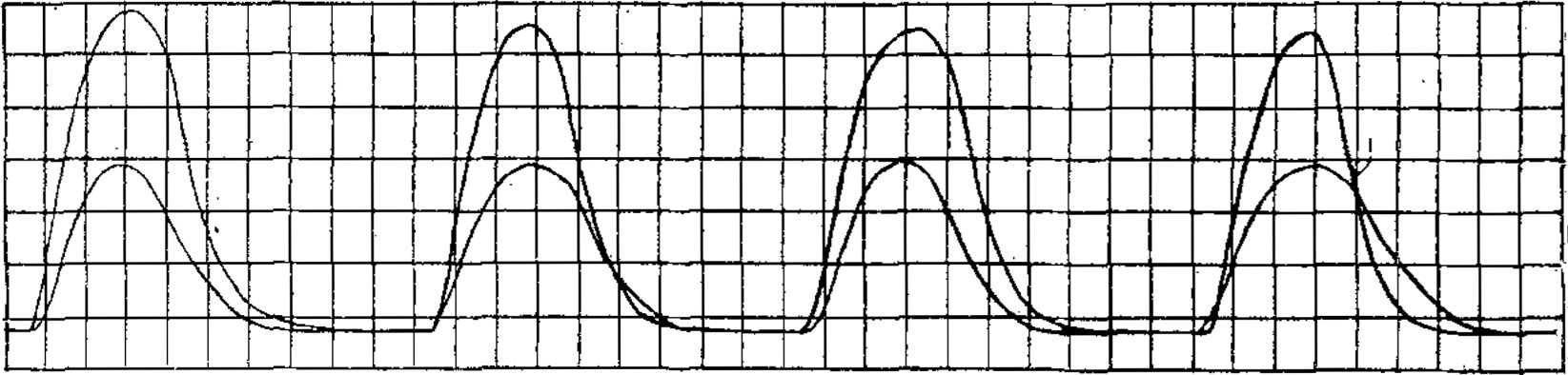 Contraction of cat heart and effect of strophanthin